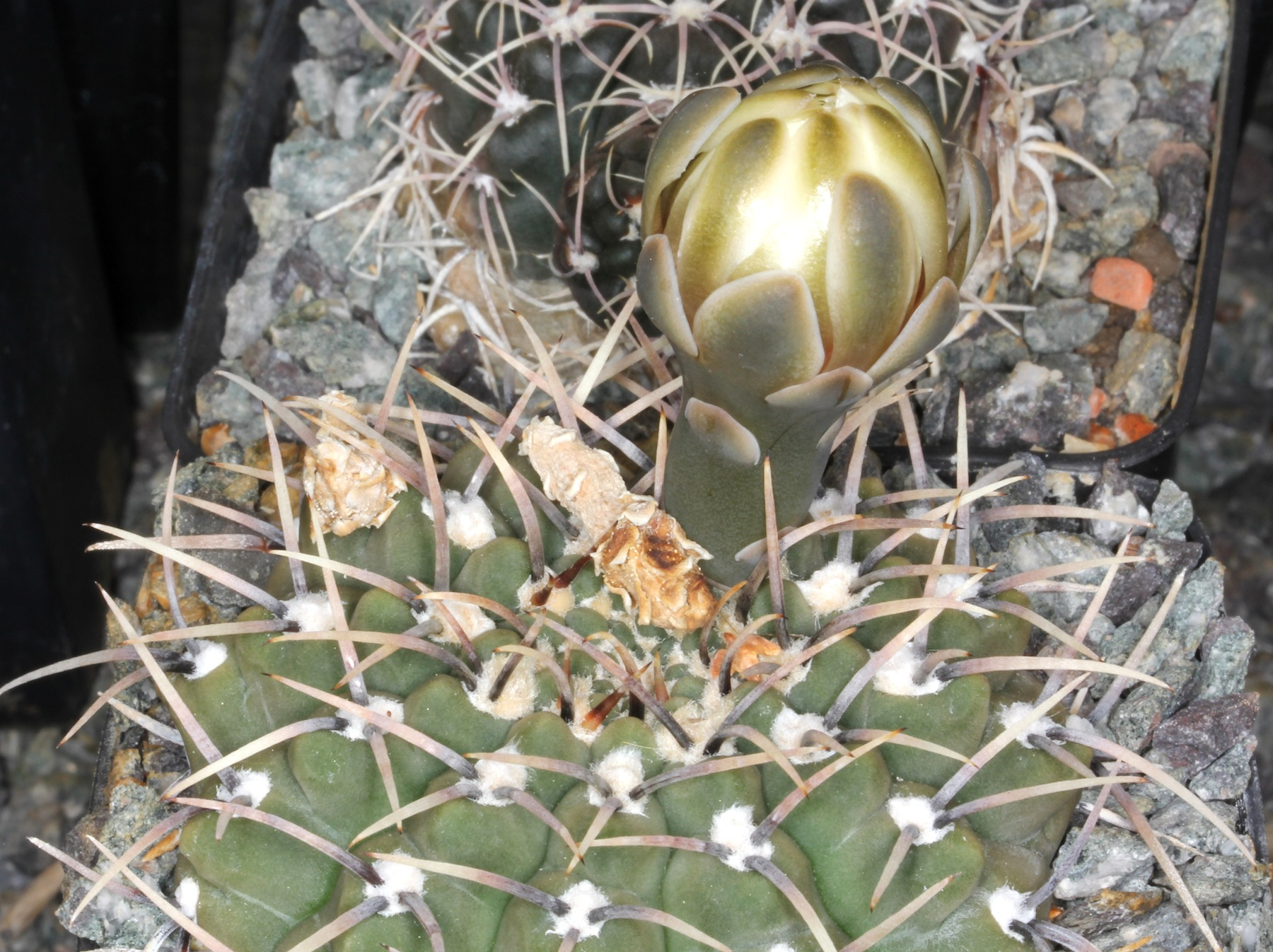 Gymnocalycium bodenbenderianum ssp. intertextum